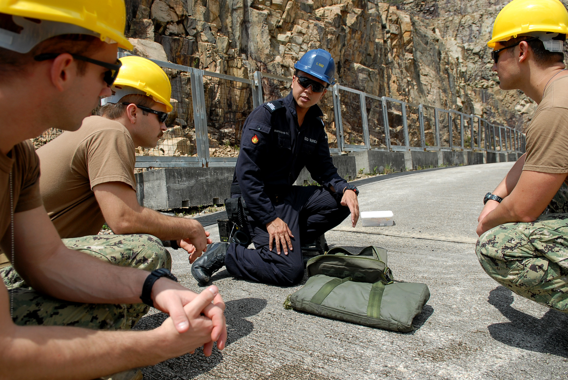 U.S. Navy Sailors assigned to Explosive Ordnance Disposal Mobile Unit Five, Platoon 503 participate in a subject matter expert exchange with members from the Hong Kong Police Force, Explosive Ordnance Disposal Bureau while in Hong Kong, July 13, 2012. Hong Kong is the second port visit for the Nimitz-class aircraft carrier USS George Washington (CVN 73). George Washington and its embarked air wing, Carrier Air Wing 5, provide a combat-ready force that will protect and defend the collective maritime interests of the U.S. and its allies and partners in the Asia-Pacific region.